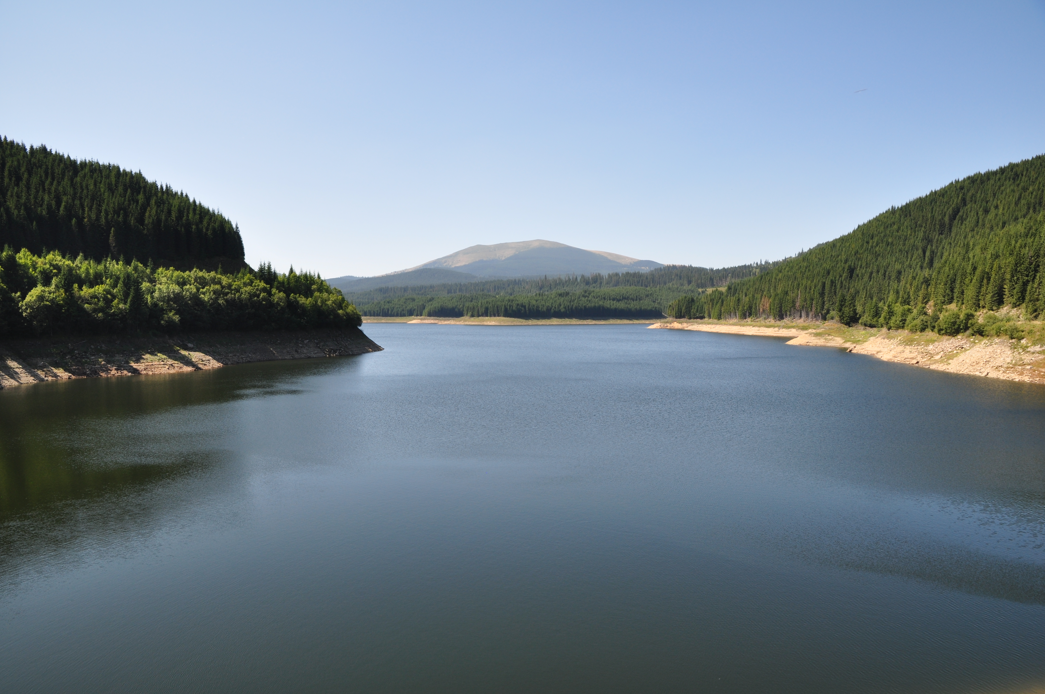 Oașa Lake and Pătru PeakRomână: Lacul Oașa și Vârful Lui Pătru